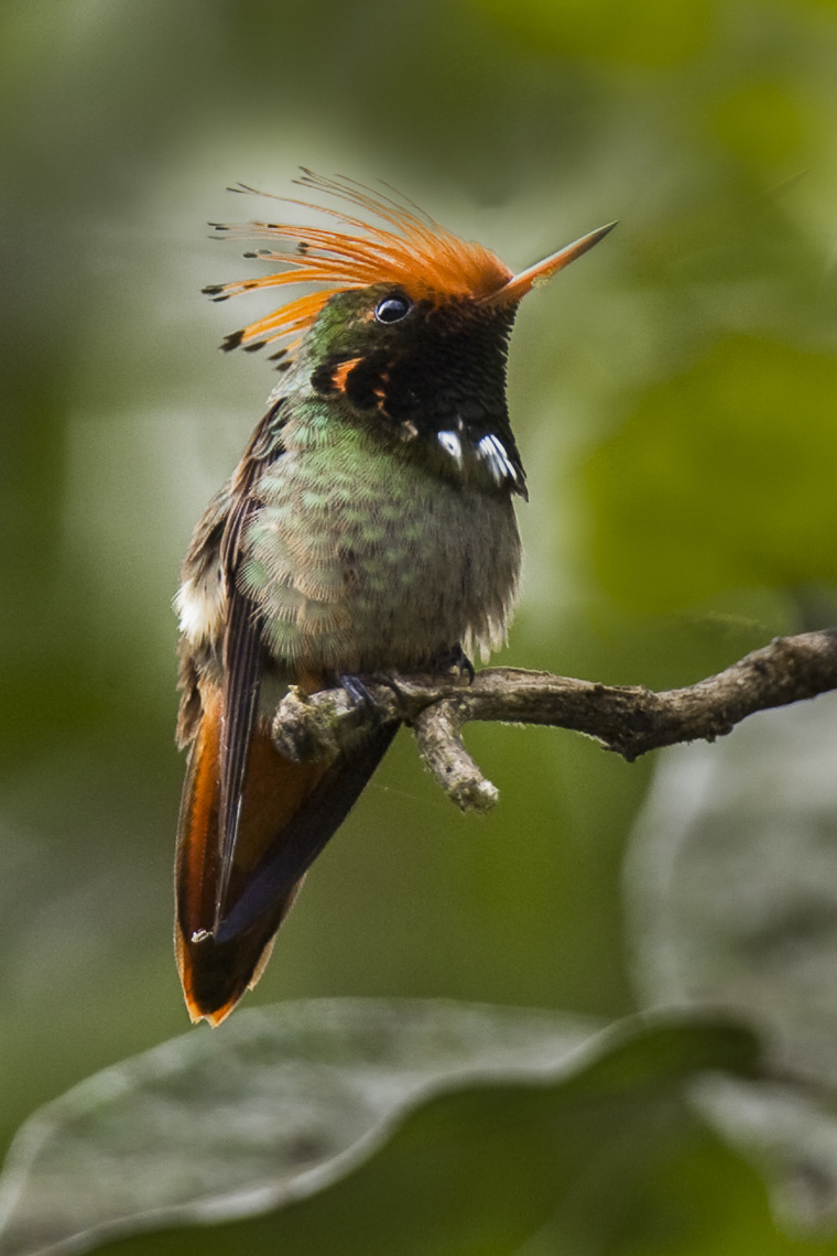 Rufous-crested Coquette - Manu NP_9510-Edit